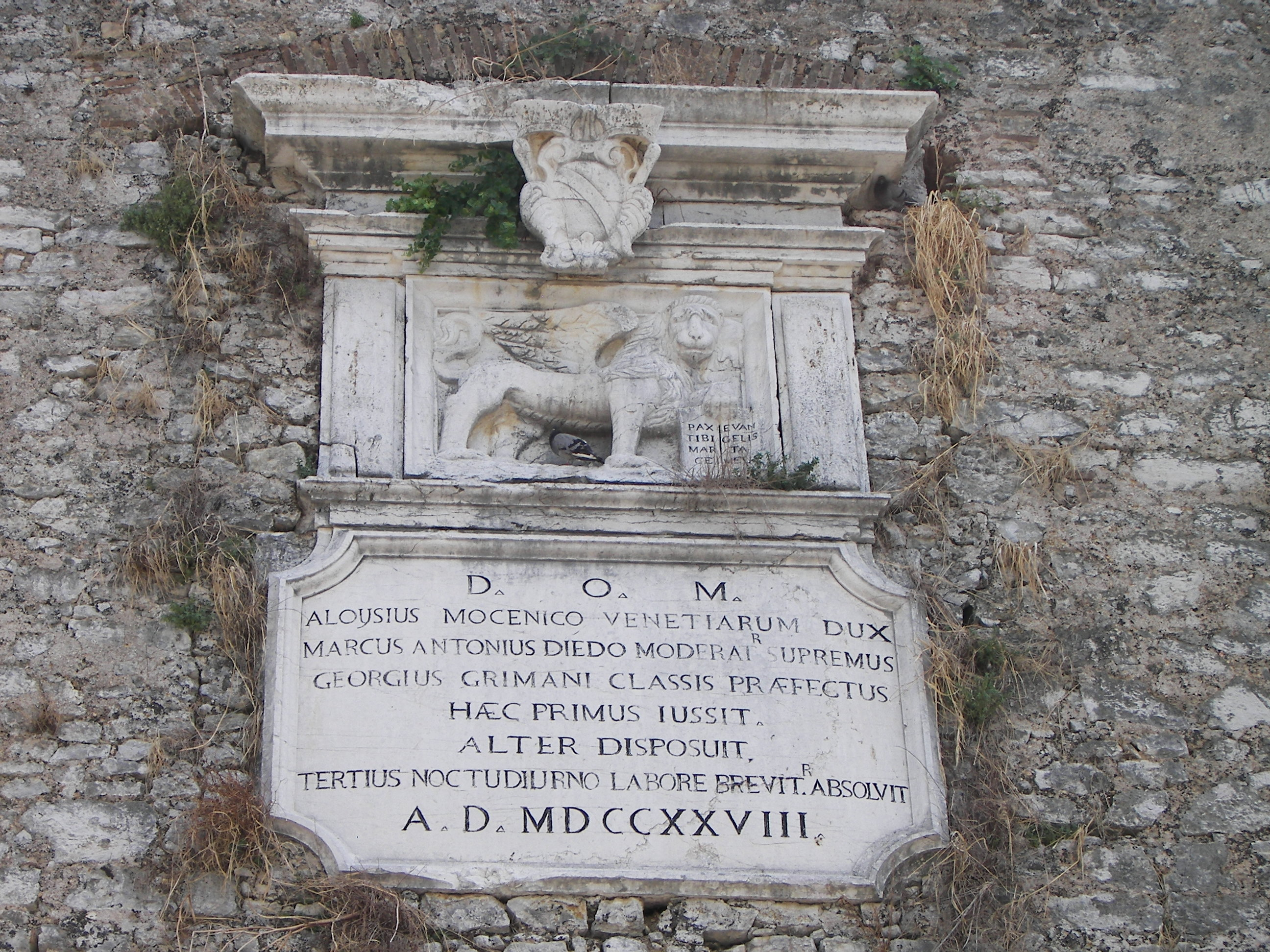 1728 Venetian Monument on Skarponas Rampart of New Fortress, Defensive Wall of Corfu Town, with Lion of Saint Mark (Symbol of Venice) and arms of Diedo[1] (Arma Diedo: Troncato d'oro e d'azzurro alla banda di rosso attraversante;[2] or da Casimiro Freschot ne LA NOBILTA' VENETA del 1707 a pag 305: DIEDO. Porta partito d'argento, e di verde, con una fascia d'oro, sopra la prima partitione. Si trovano altre Arme di questa Casa in varij manoscritti, cioè d'oro con due fascie verde, che fù la prima, e spaccato, è diviso per fianco, d'oro, e di verde con una benda vermiglia, c'uno di questa Casa alzò l'anno 1308. Per fess or and azure, a bend gules; Per fess or and vert, a bend gules) above. See comparitive, ledger stone of Ludovico Alvise Diedo (d.1466), Basilica dei Santi Giovanni e Paolo, Venice[1]. Inscribed in Latin: D(eo) O(ptimo) M(aximo) Aloysius Mocenico Venetiarum Dux Marcus Antonius Diedo Moderat(o)r Supremus Georgius Grimani Classis Praefectus Haec Primus Jussit Alter Disposuit Tertius Noctudiurno Labore Brevit(e)r Absolvit ("To God, most good, most great, Alvise III Mocenigo, Duke of the Venetians (i.e. Doge); Marco Antonio Diedo, Supreme Governor; Giorgio Grimani, Commander of the Fleet; The first ordered this (i.e. the Wall); The second planned it; the third, by labour day and night, quickly completed it").